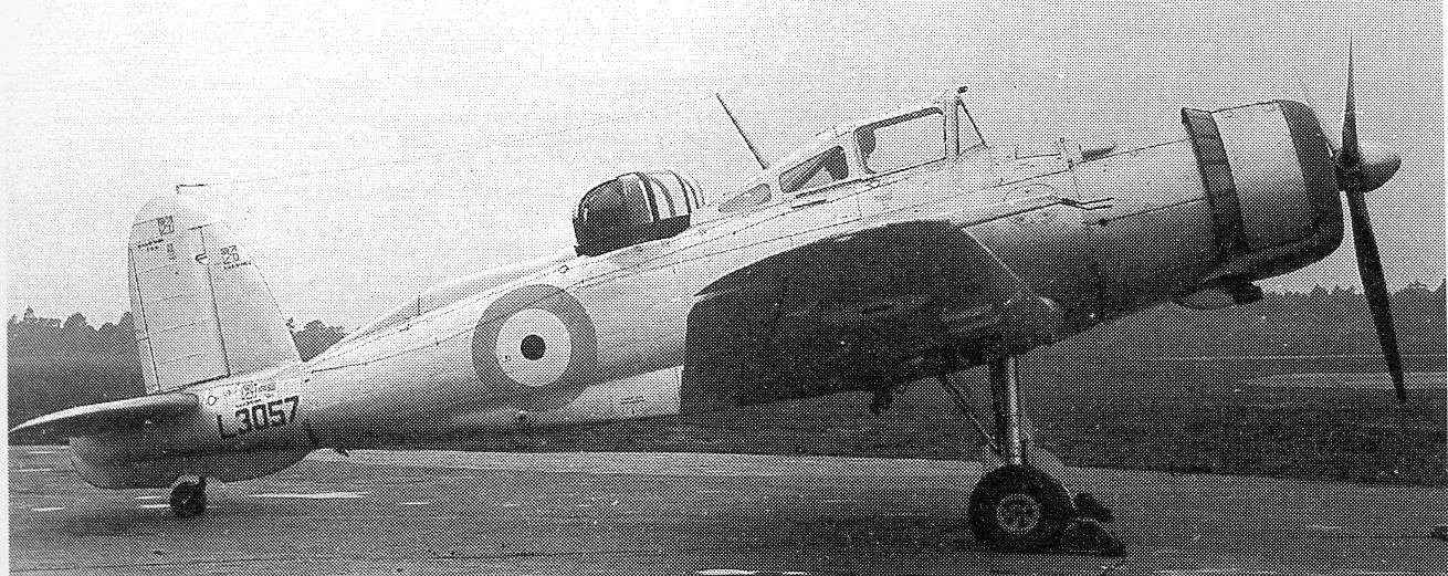 The prototype Blackburn Roc L3057 in May 1939.